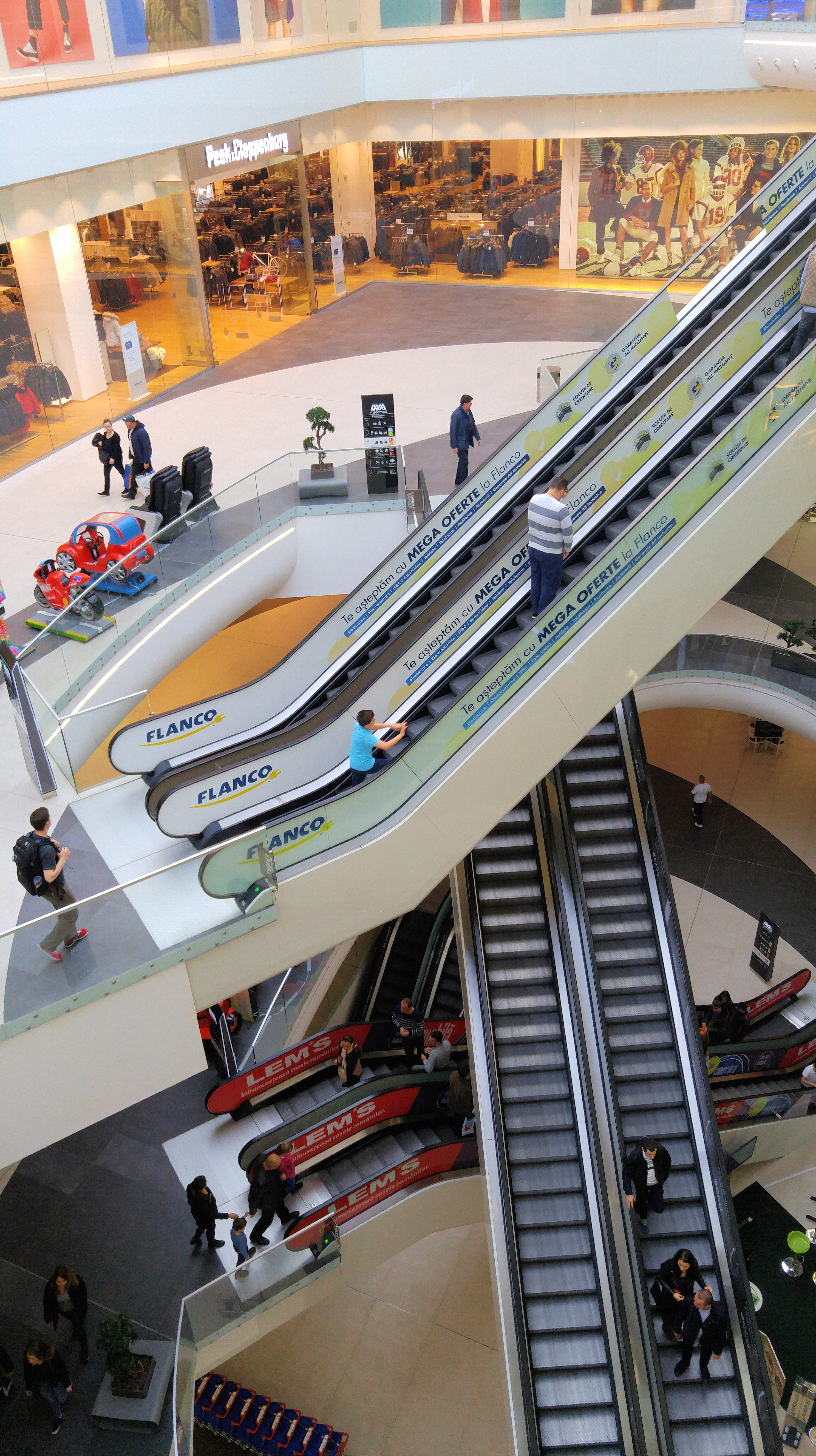 Escalators in Bucharest's new Megamall.